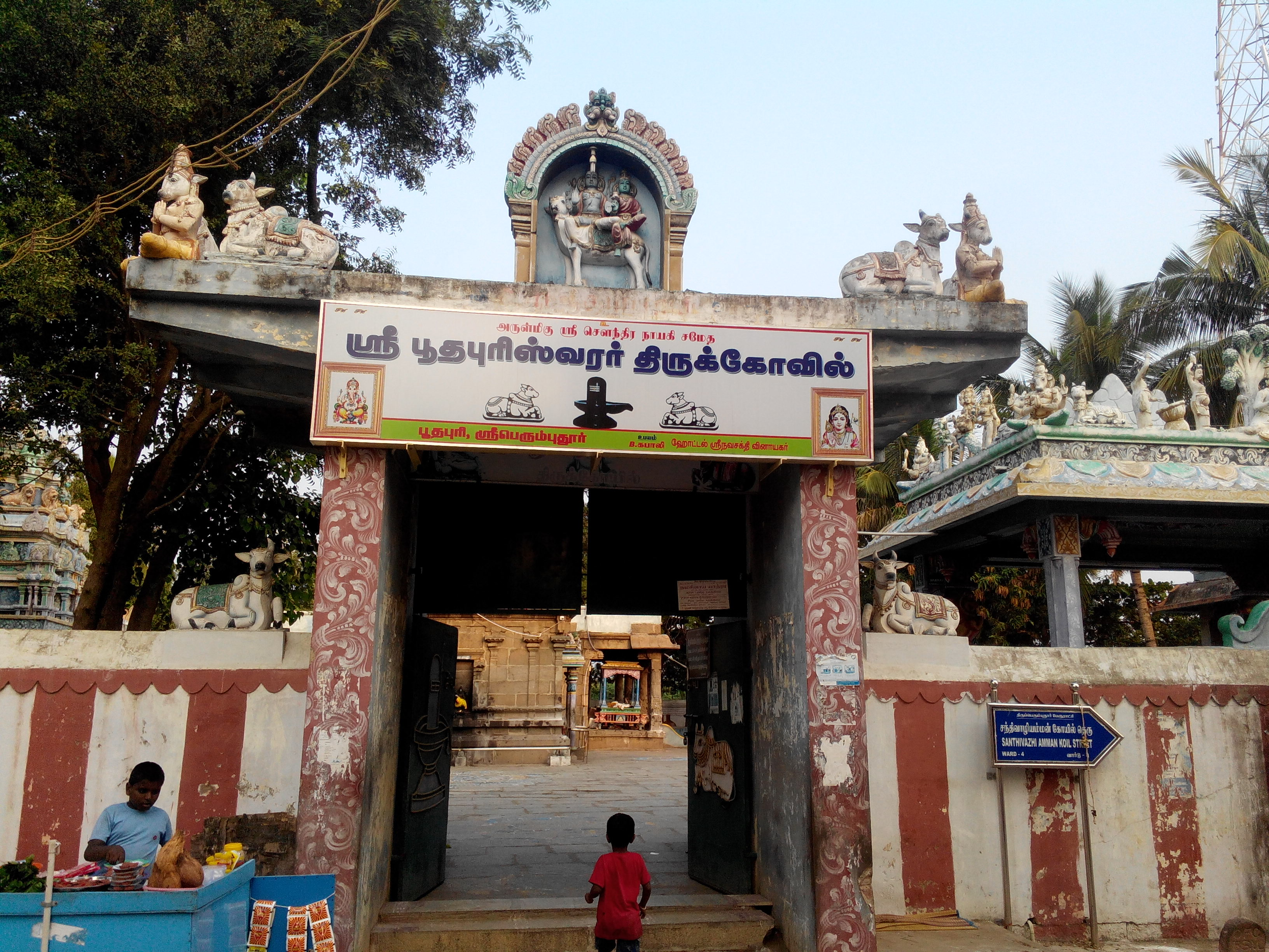 ஸ்ரீபெரும்புதூர் பூதபுரிசுவரர் கோயில் வாயில்